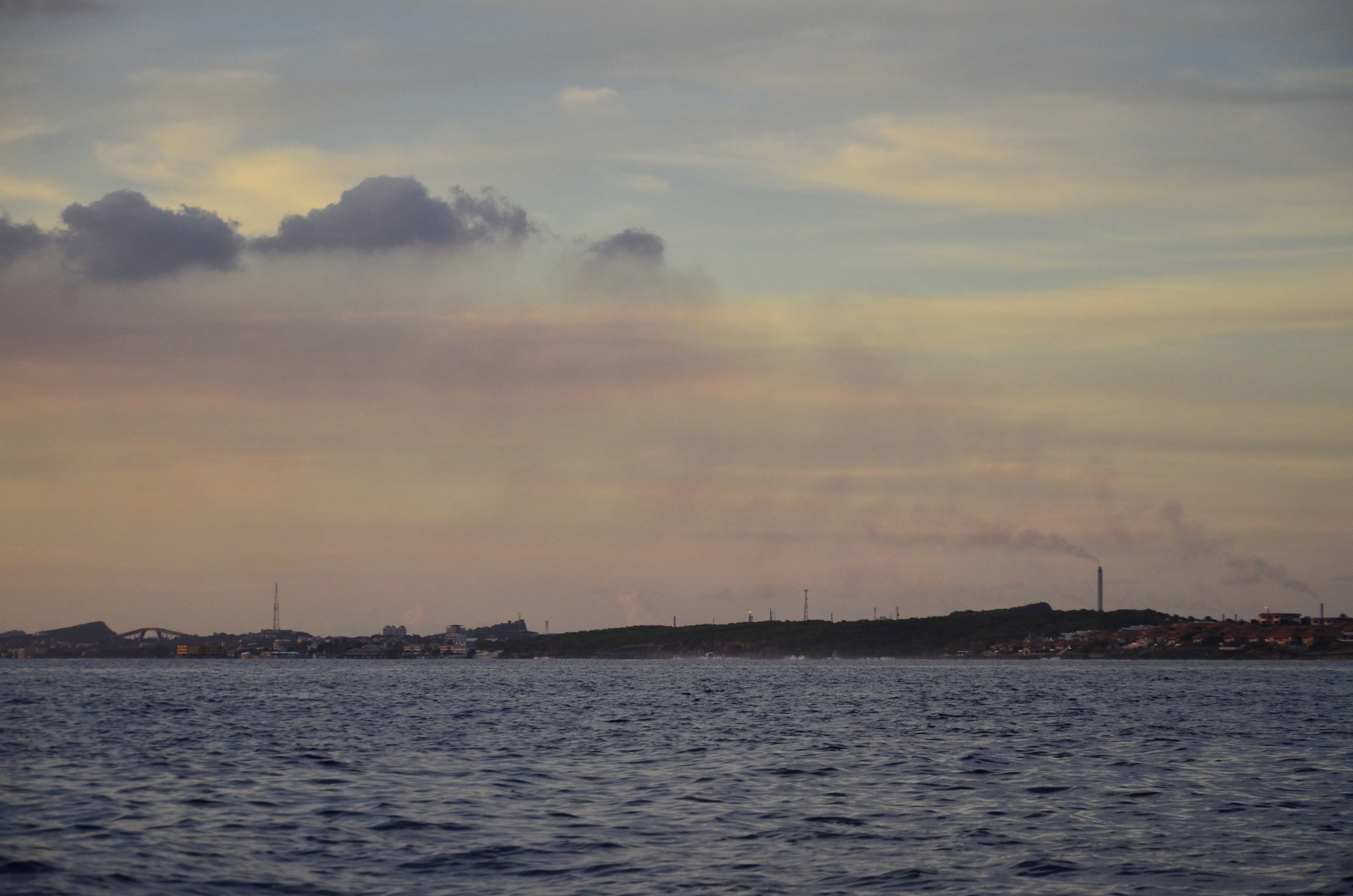 Acid clouds grow from the SO2 emissions of a PDVSA refinery on the island of Curaçao